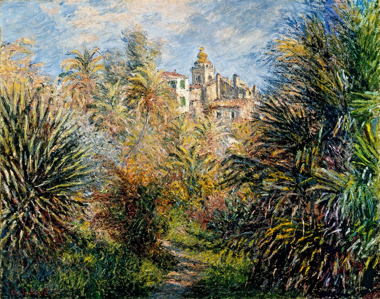 Painting by Monet of the Moreno garden in Bordighera